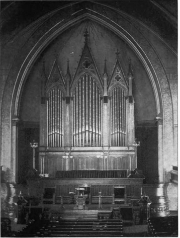 First Presbyterian Church of Chicago, Indiana Avenue and 21st Street, interior